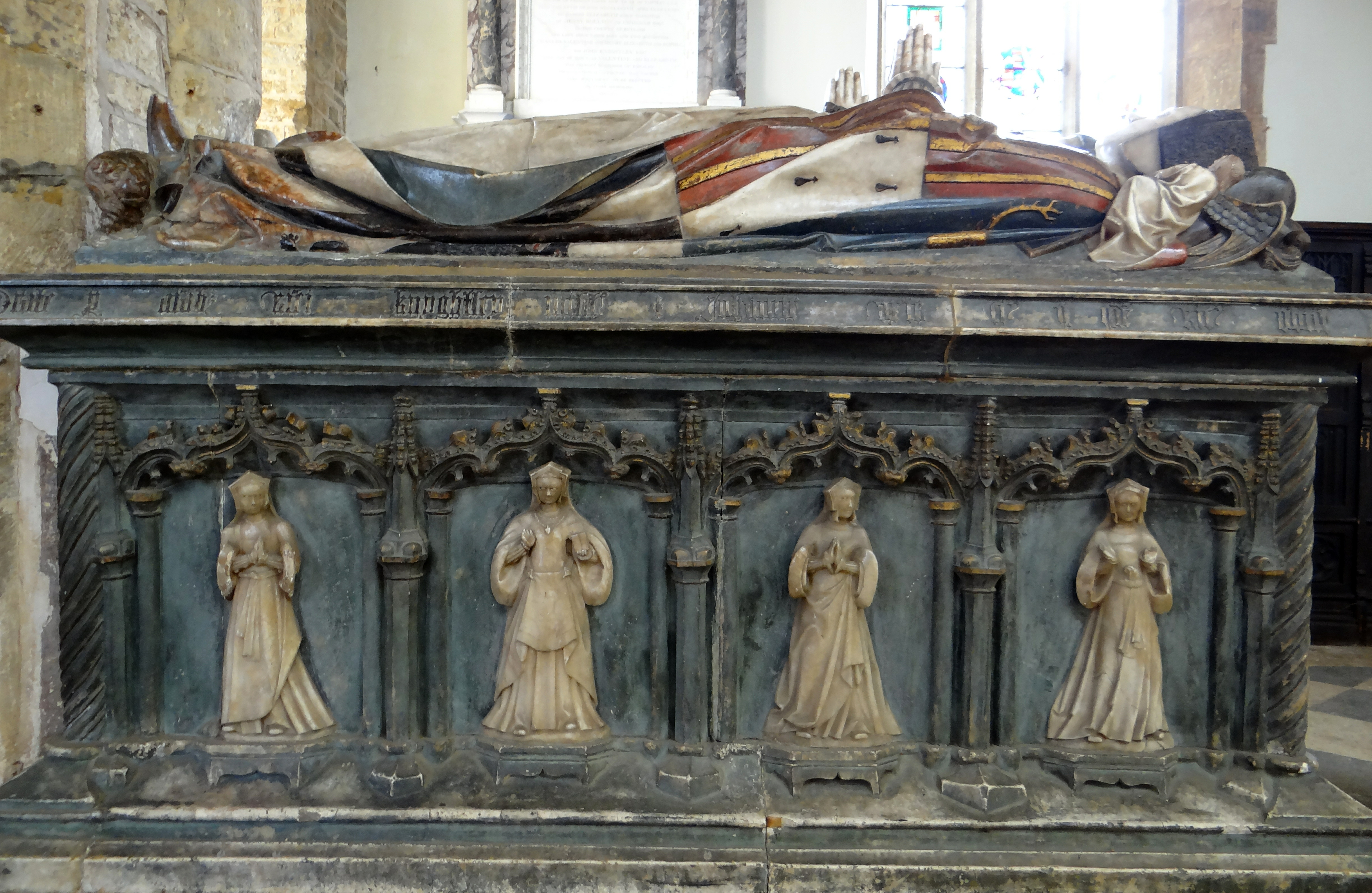 Monument to Sir Richard Knightley, d. 1534, and his wife Jane Skenard, by Richard Parker of Burton upon Trent - 4 daughter 'weepers on south side'. Jane Skenard displays the arms of Knightley on her robe.